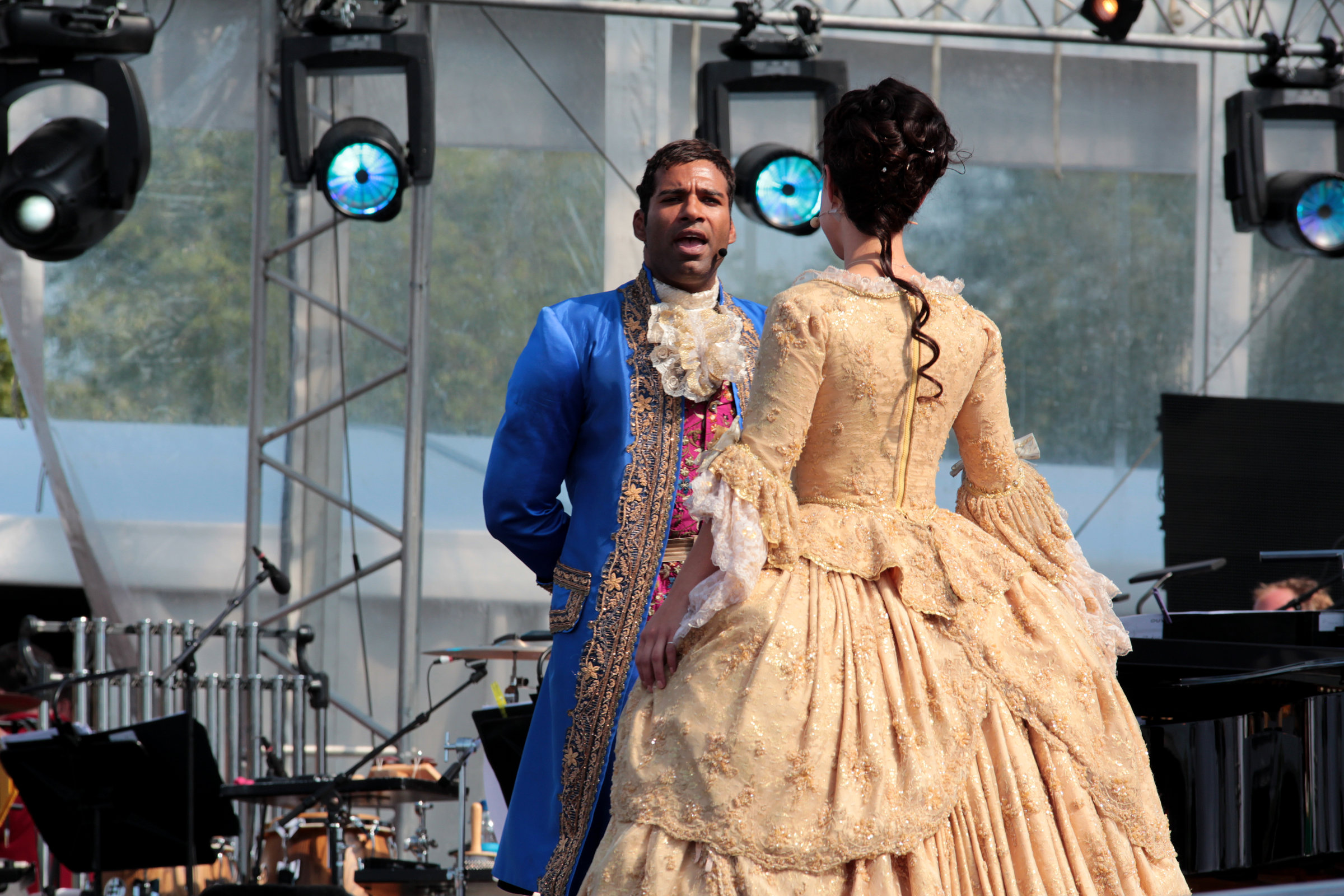 Edwin Jonker and Anouk Maas as the Beast and the Beauty during rehearsals for the musical singalong at the Uitmarkt 2015 in Amsterdam.